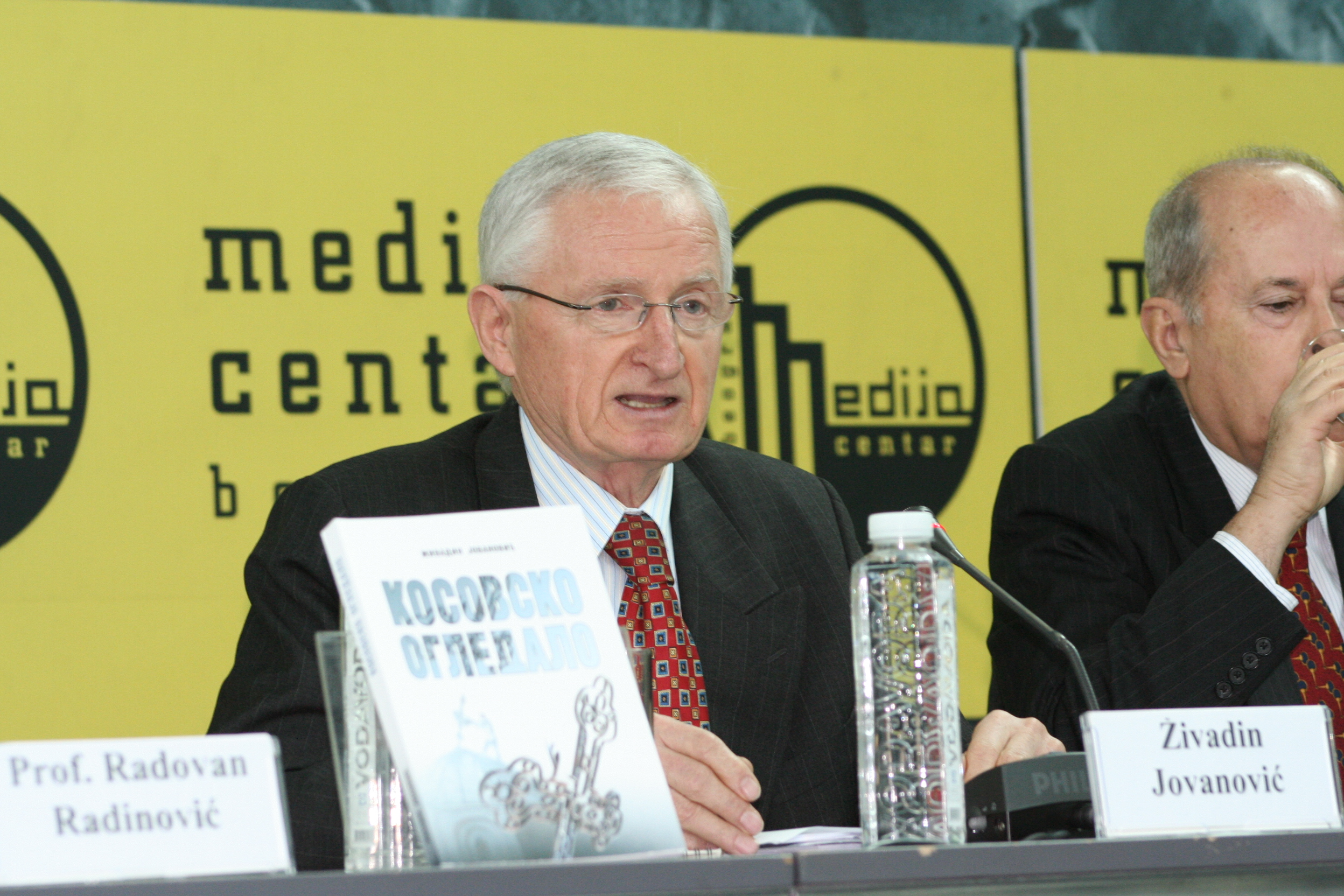 Živadin Jovanović